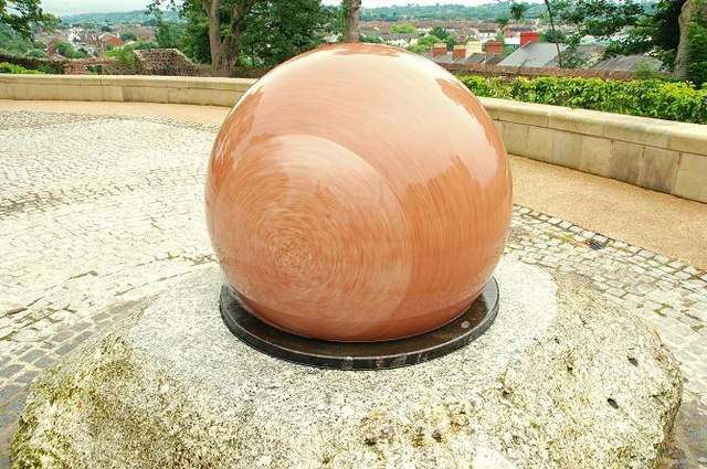 Kugel ball, Lisburn. See 566395. The singular object is really a Kugel ball. According to Wikipedia: "A Kugel ball is a sculpture consisting of a large granite ball supported by a very thin film of water. Water flows beneath a very heavy, perfectly spherical rock from a spherical concave base with the exact same curvature. A Kugel ball can weigh thousands of pounds, but because the thin film of water lubricates it, the ball spins." In the previous photo it was not spinning. It was today (albeit slowly) and needed an exposure of a tenth of a second to record the movement.